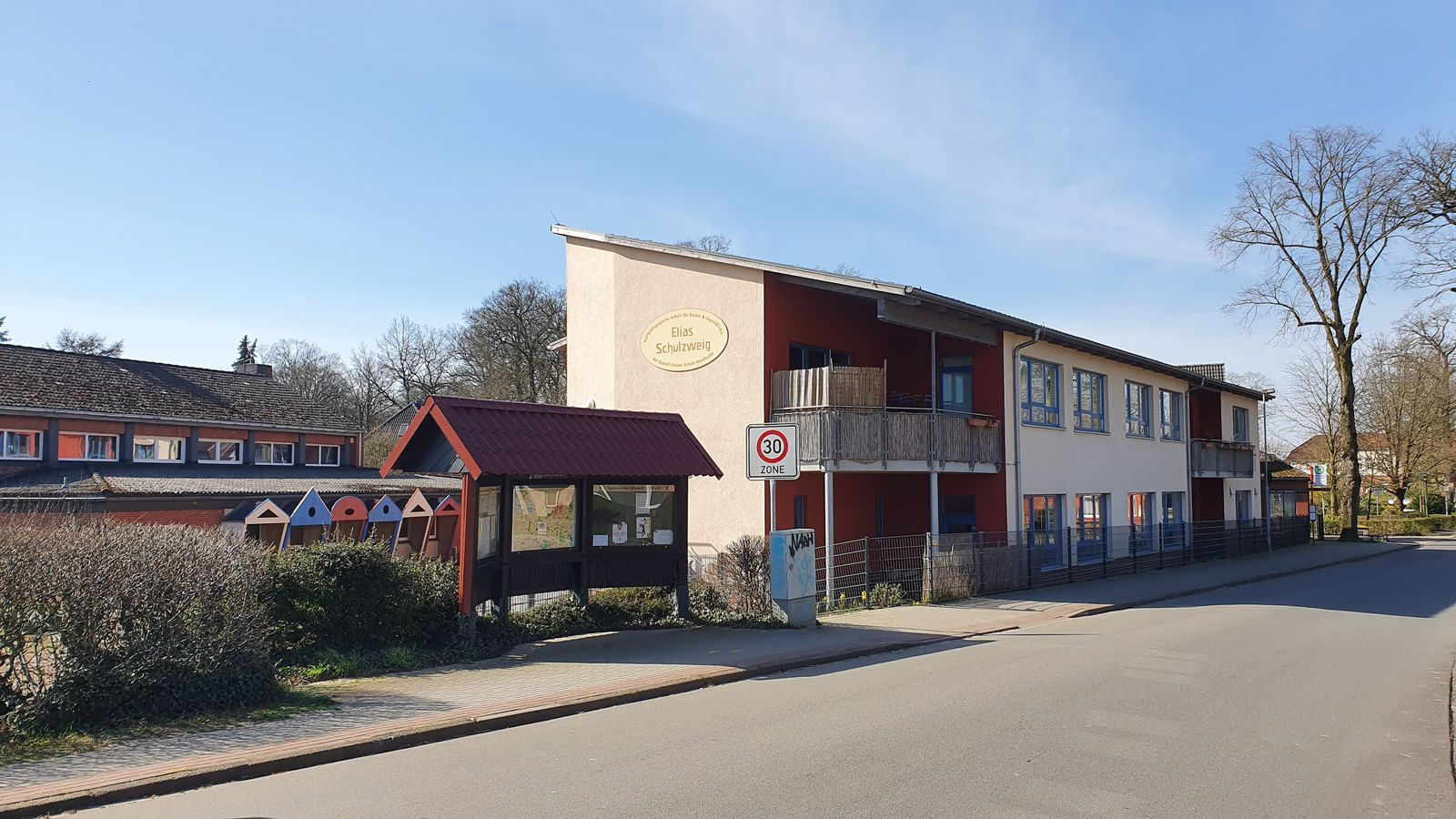 Elias-School Wistedt